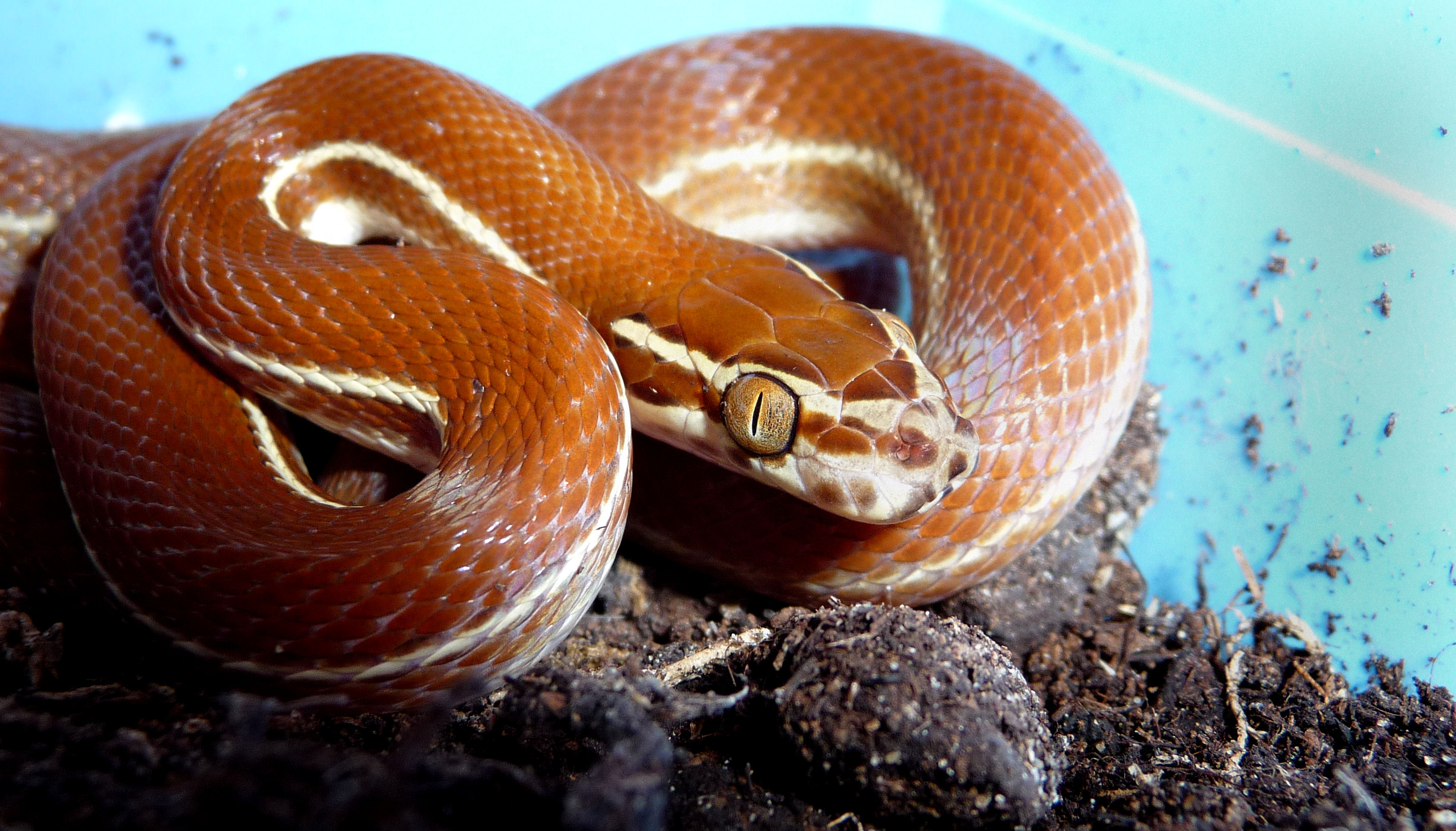 Photo of a captive Lamprophis lineatus